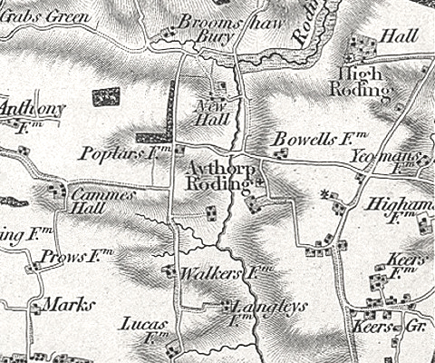 1805 Ordnance Survey map of Aythorpe Roding in Uttlesford, Essex, England